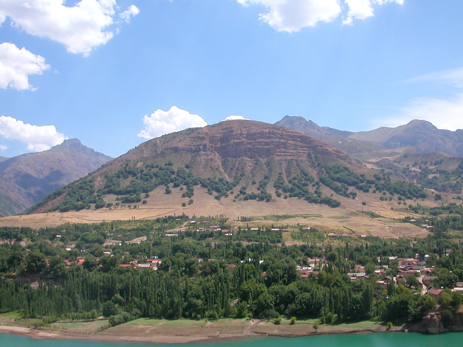 Bogustan or Bog-i Ston (Alternatively Baghistan) is located in the Bostonlyk district of the Tashkent province, in the southeast of the Charvak Reservoir at 960 m a.s.l. of western extremity of the Koksu Ridge (West Tien Shan). Practically Bog-i Ston nestles among verdure ashore Pskem River where it flows into the Charvak Reservoir. Bog-i Ston is Tajik for "Land of orchards".